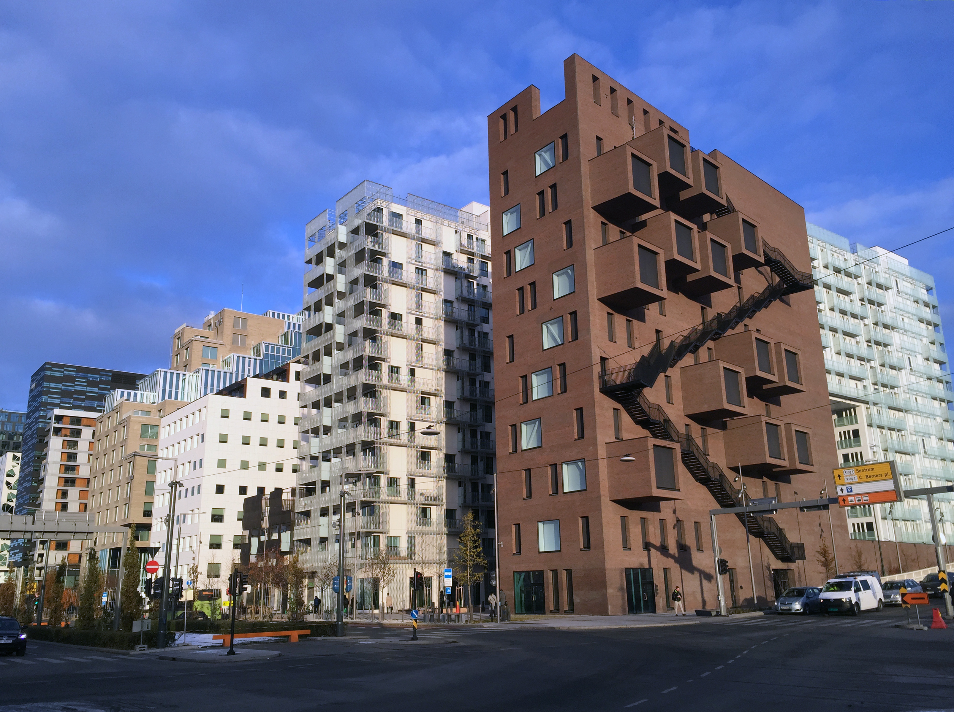 View of Barcode buildings in Bjørvika. DEG42 building in front